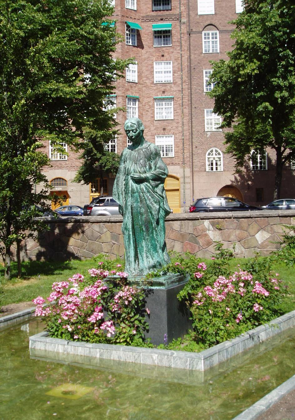 Ellen Key, bronze statue by Sigrid Fridman (1879–1963), erected 1953 in Ellen Keys park in Stockholm, Sweden